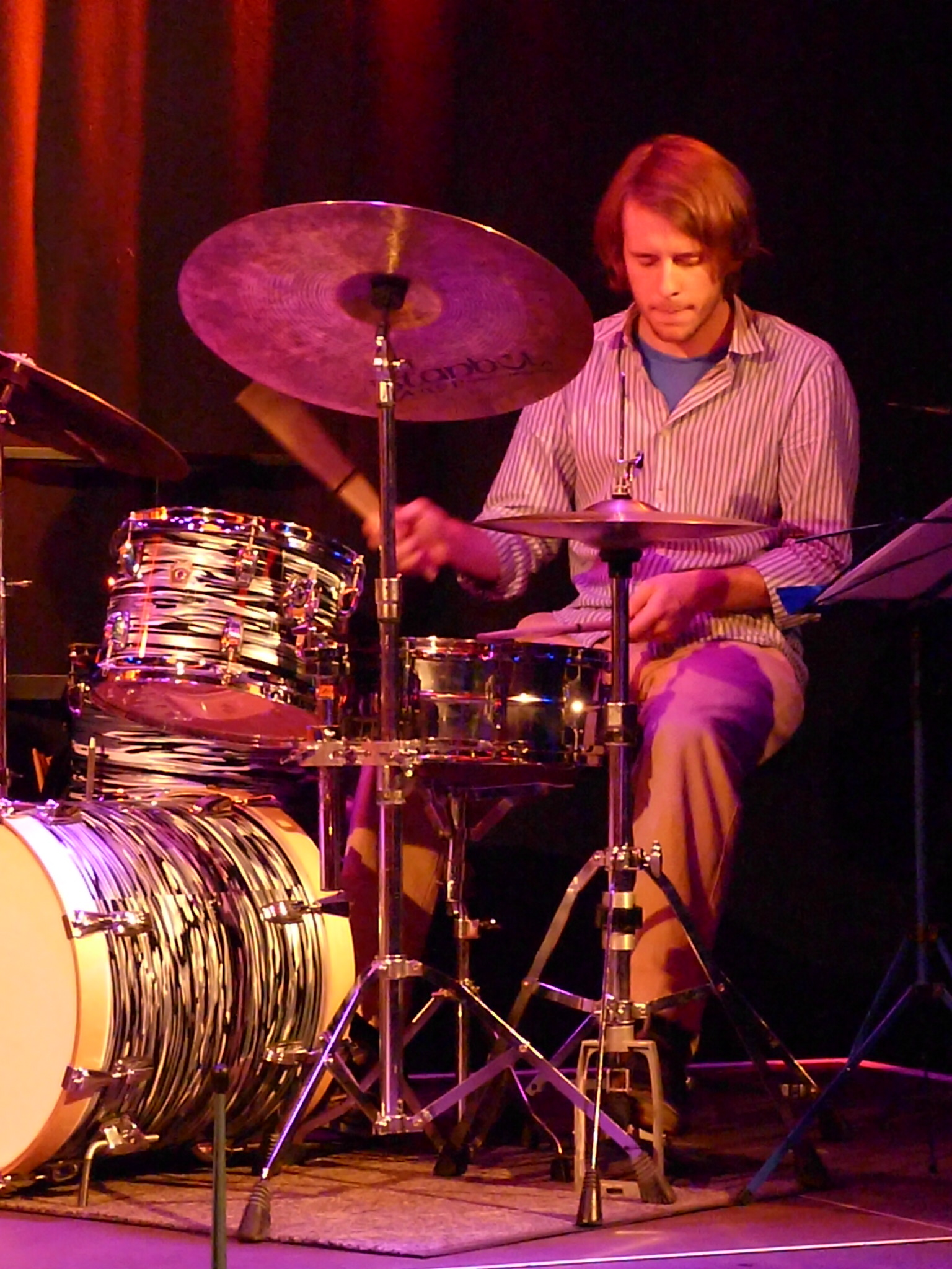 Thomas Sauerborn (dr,voc) in concert with Joris Roelofs and Matthias Schriefl at ARTheater, Cologne, Germany, July 31st, 2012